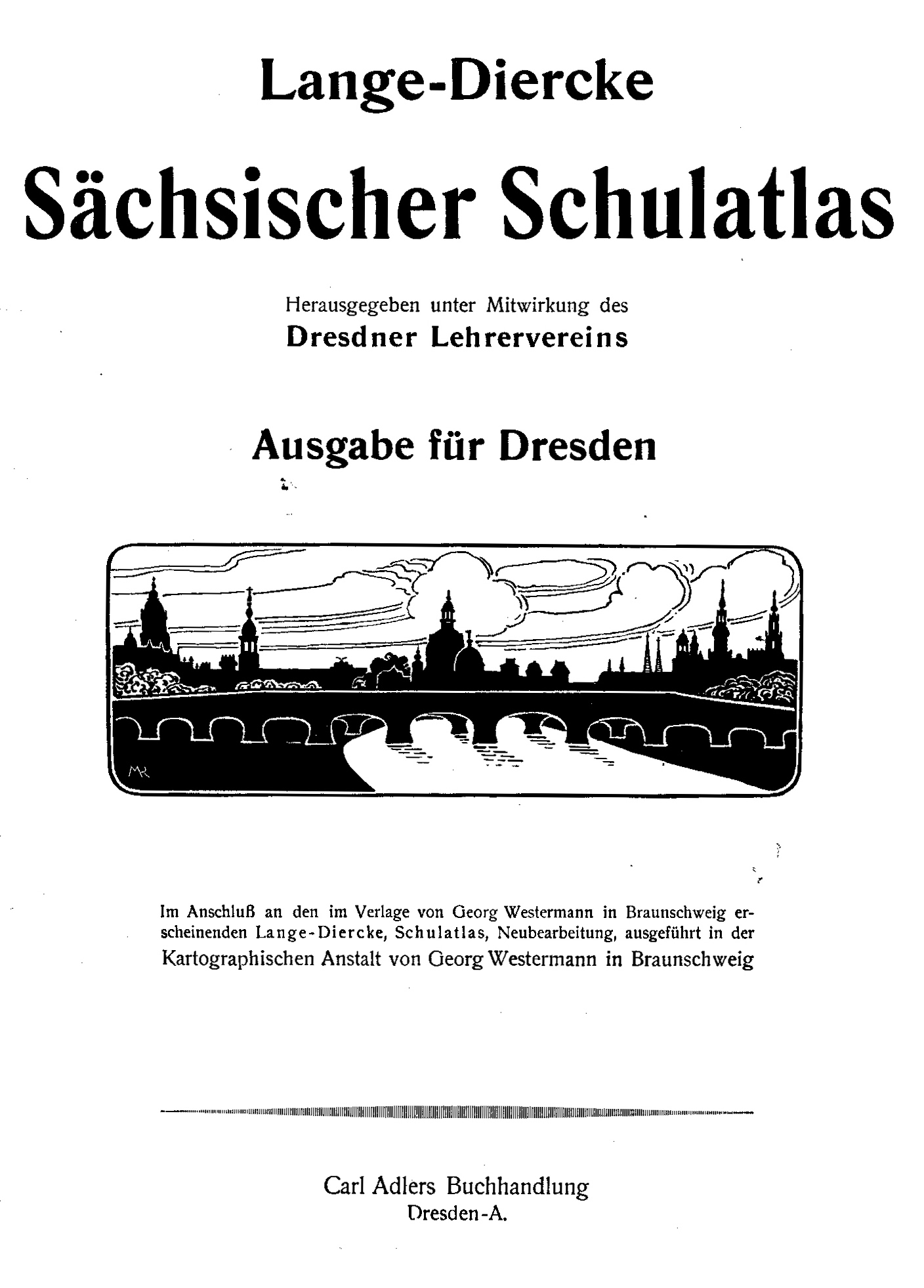 Front page